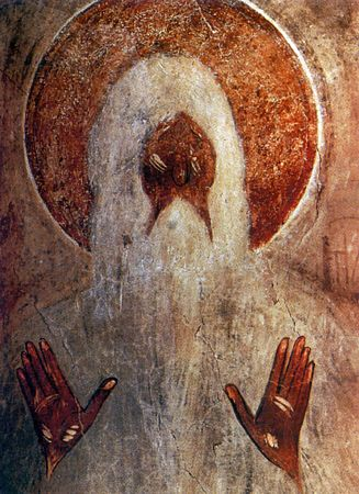 Macarius of Egypt